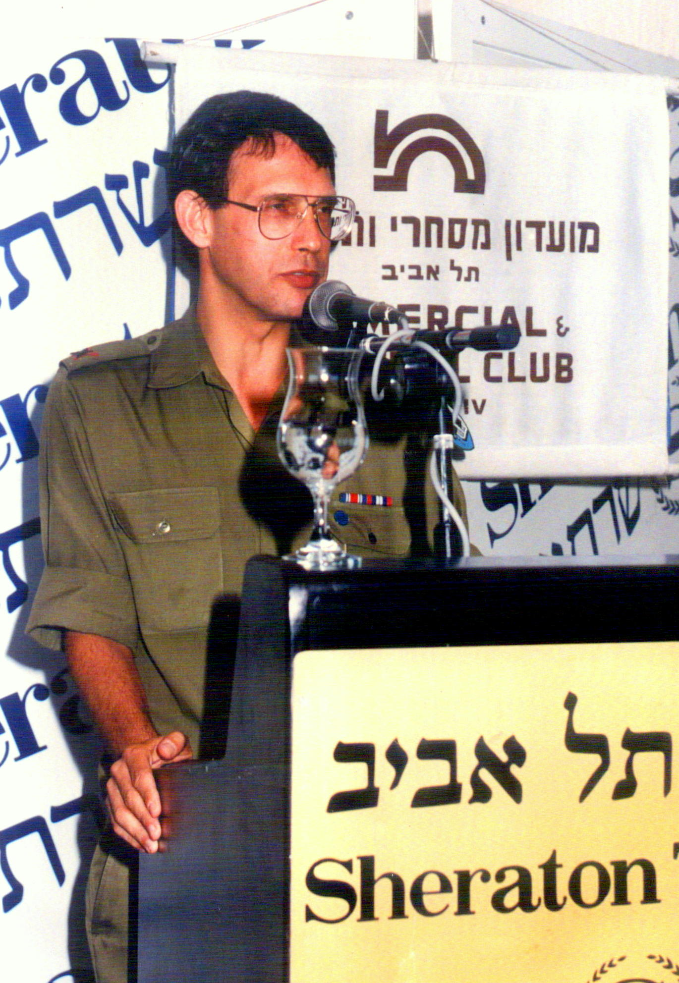 Ci-Club